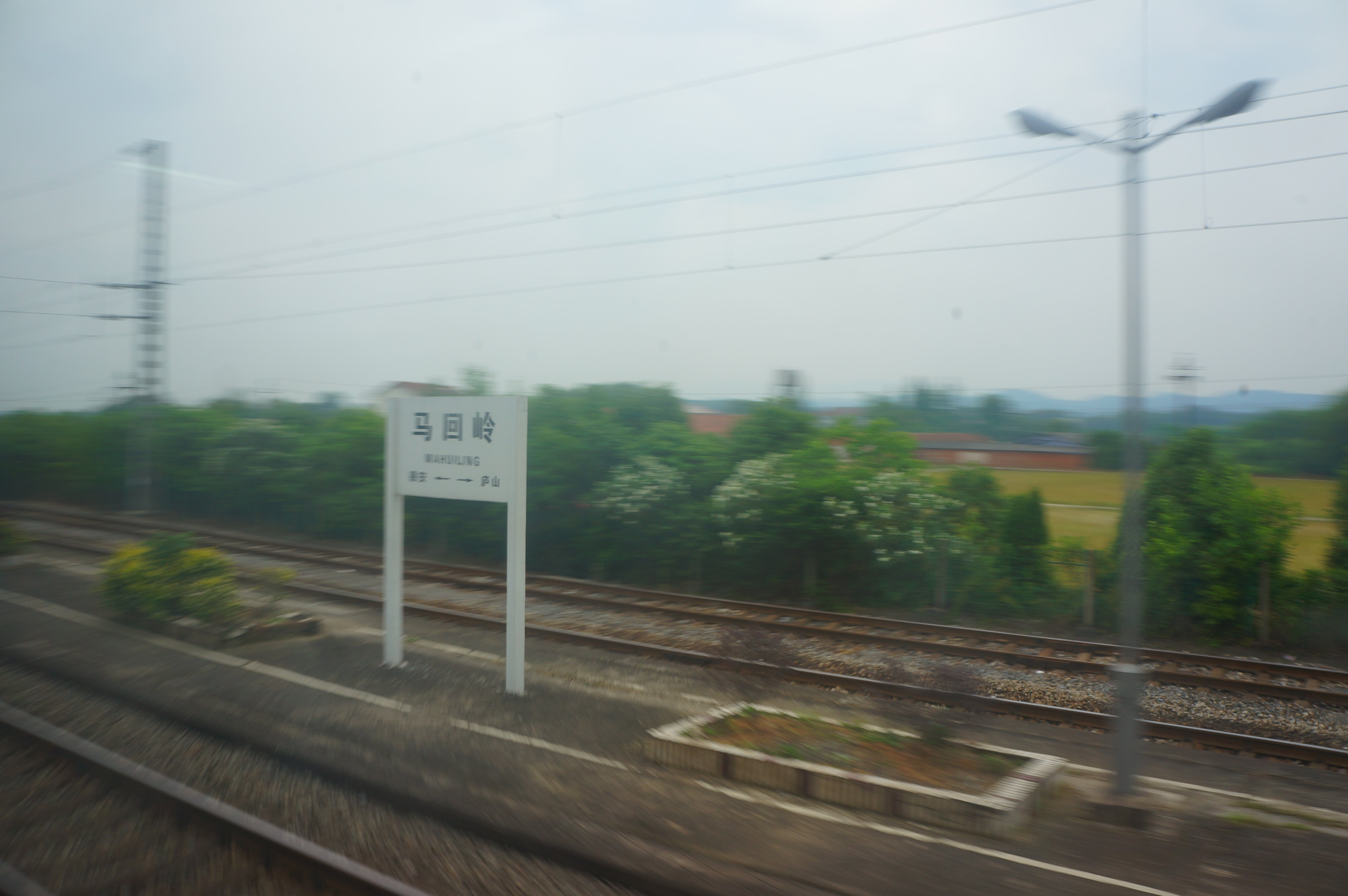 Mafeiling Station in Jiangxi dialect